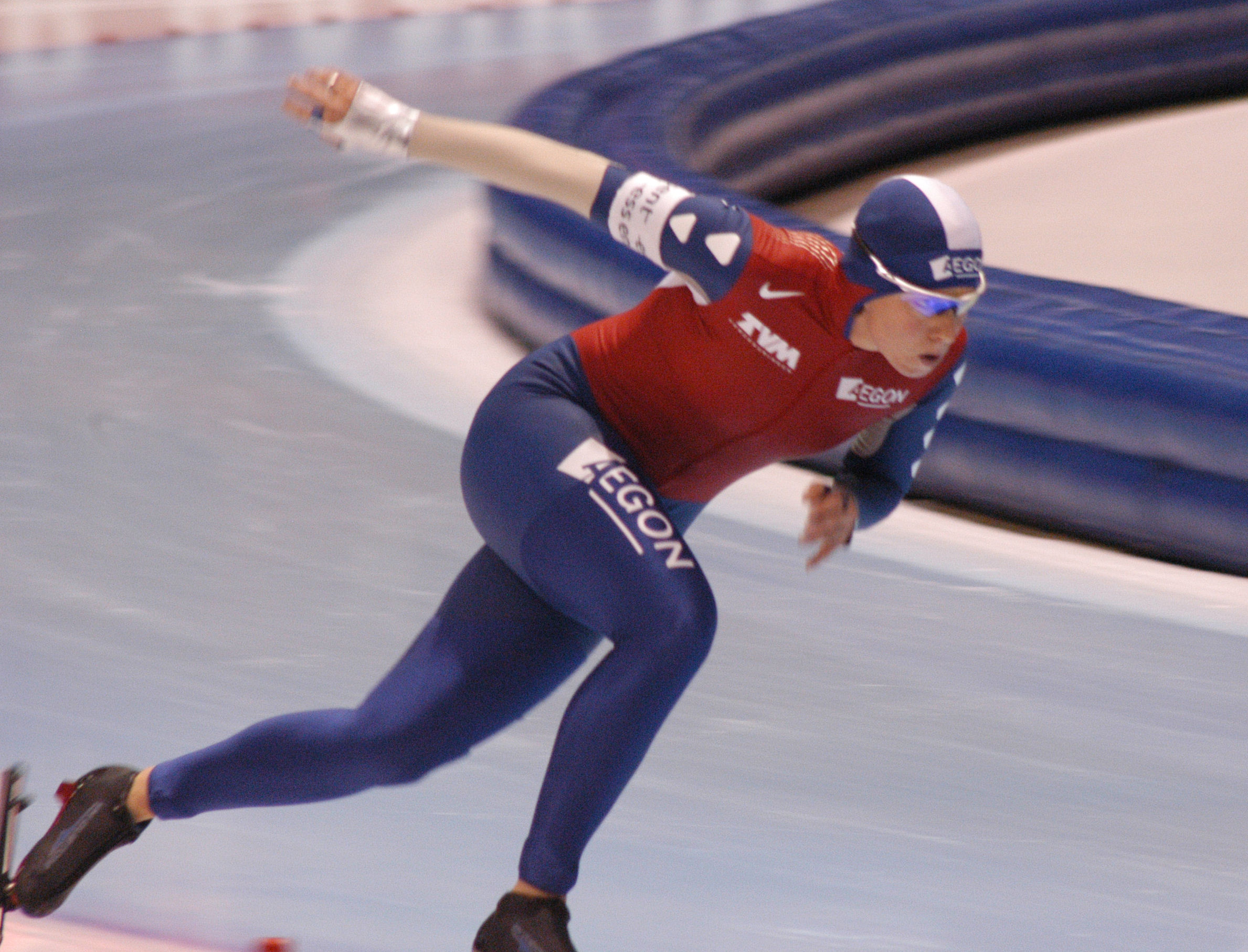 Renate Groenewold (NED) in action at a World Cup Speedskating in Heerenveen, the Netherlands.